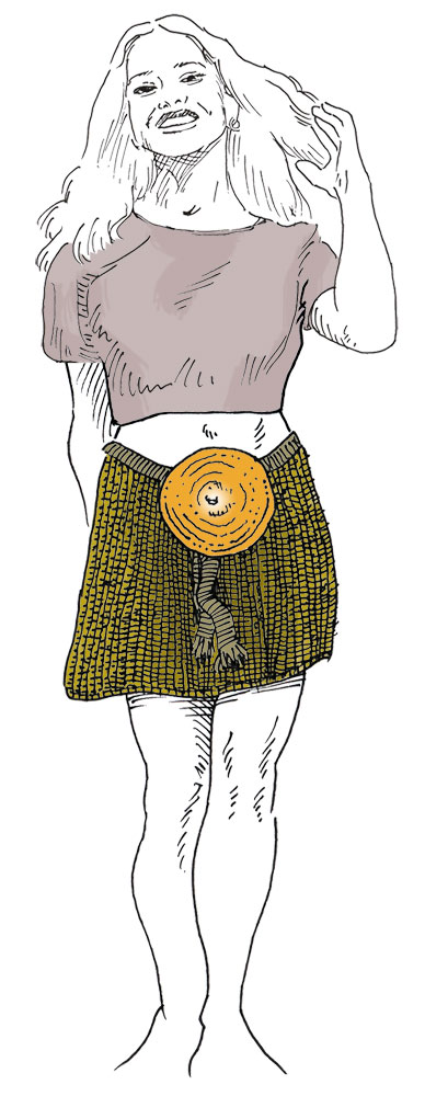 Reconstruction of bronze age clothing found in Denmark[1]